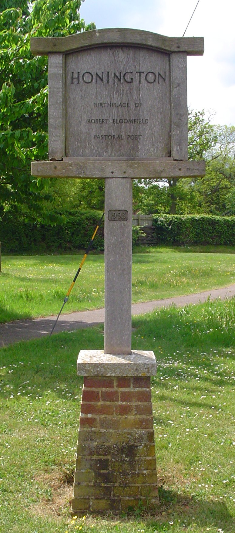 Signpost in Honington, Suffolk